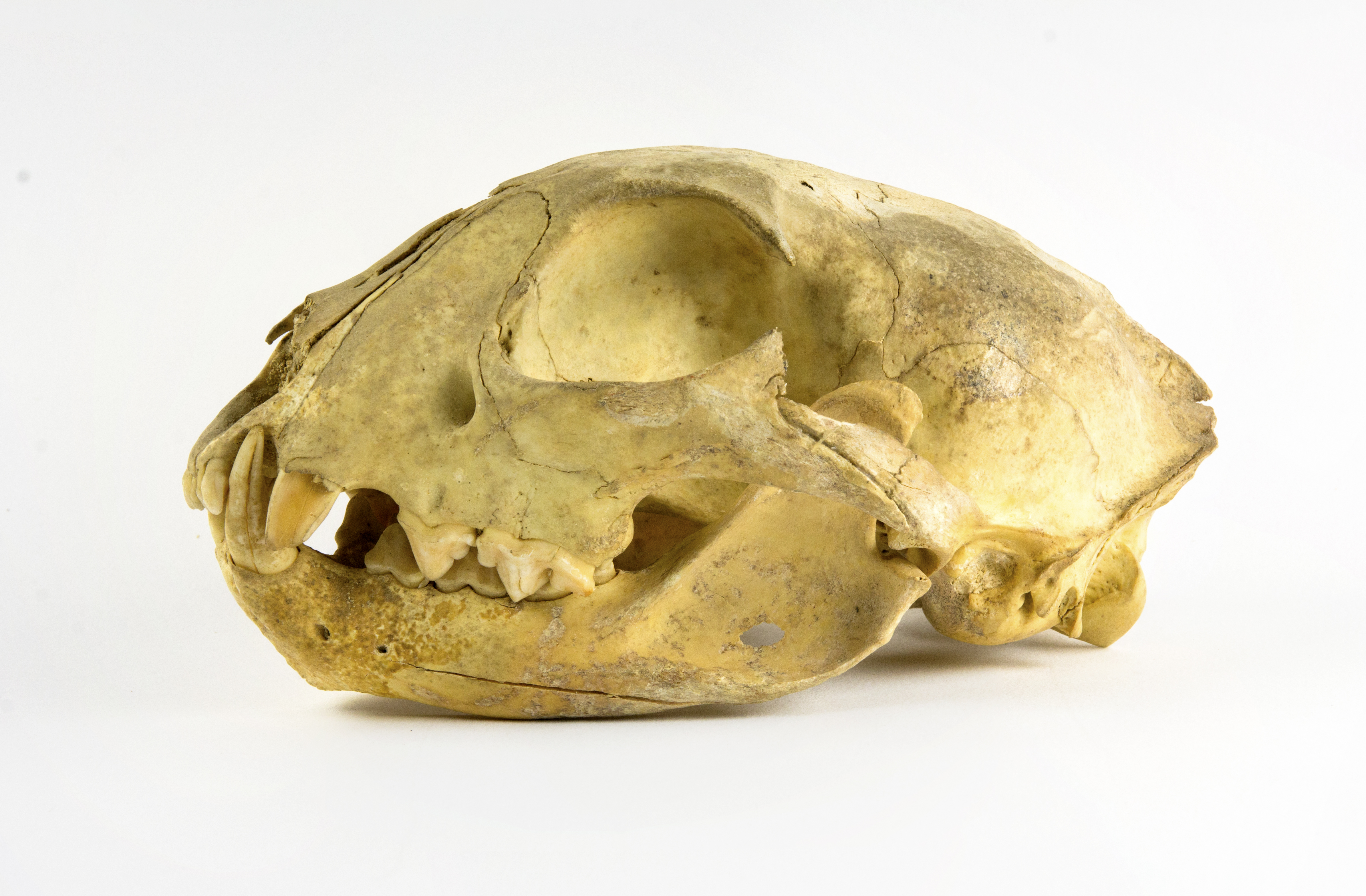 Skull found in a chasm, Eurasian lynx, size : 15 cm